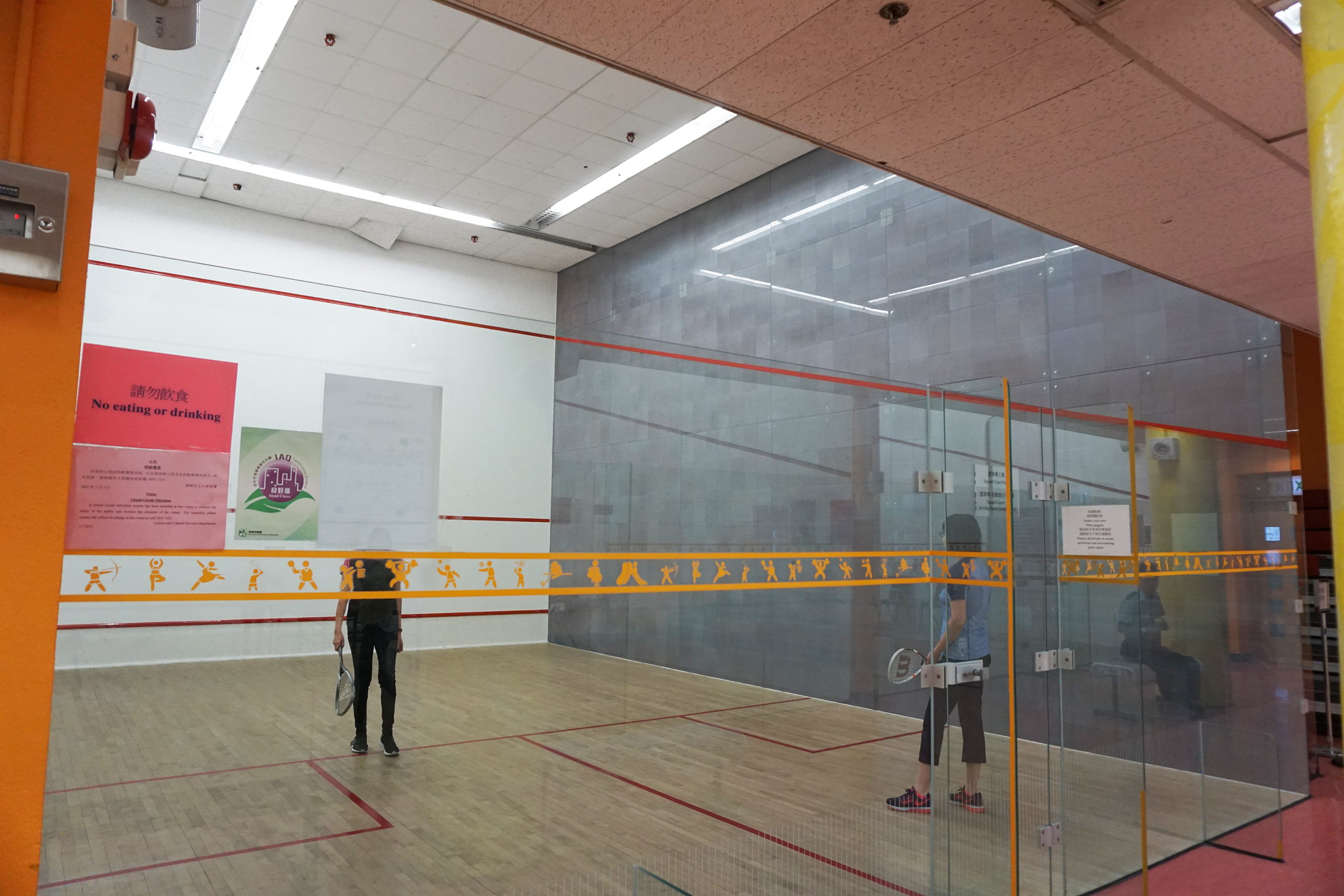 Smithfield Sports Centre in Kennedy Town, Hong Kong.